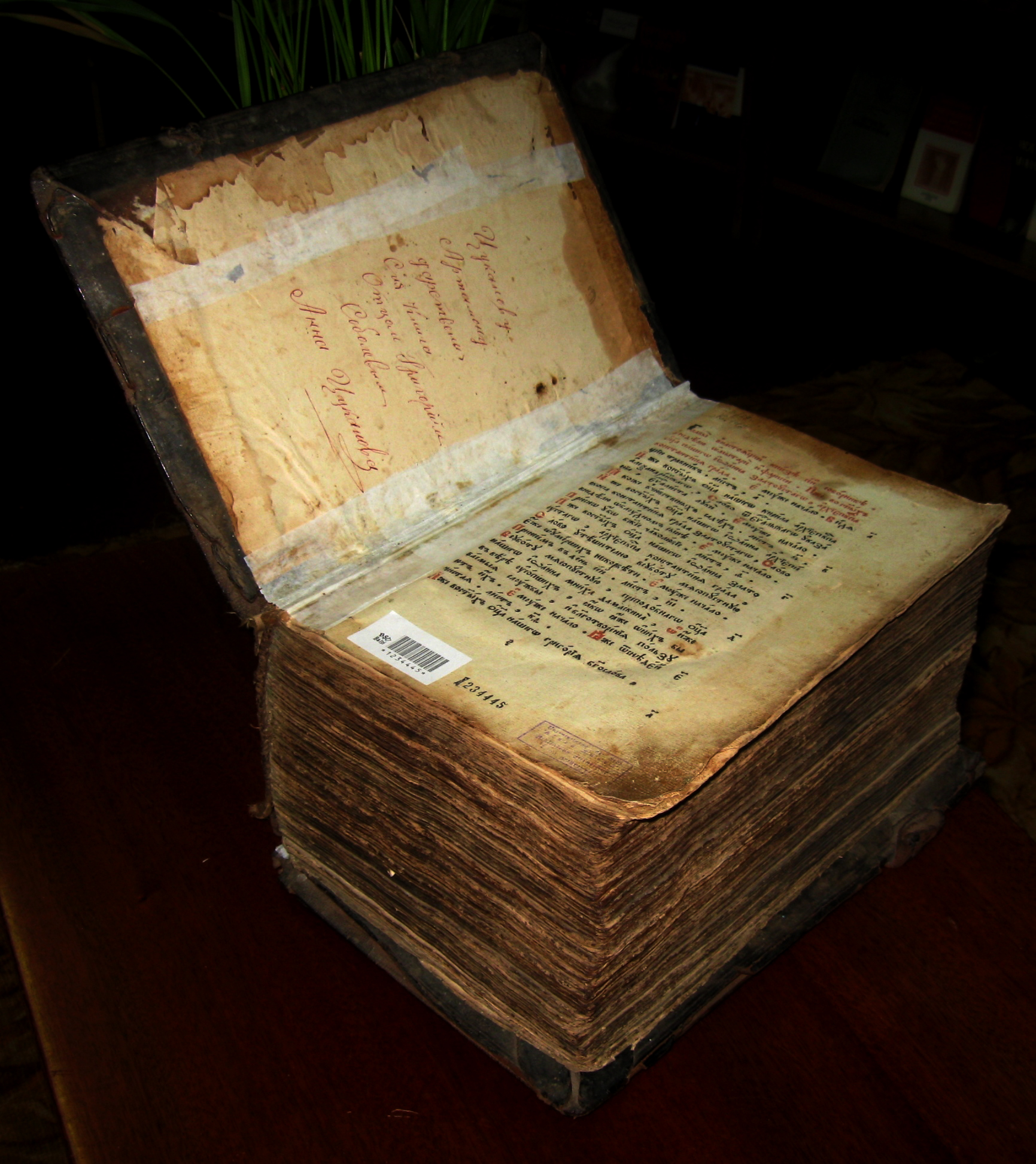 Kazania, carte care a fost editata in 1790 si are 1730 pagini. Face parte din colectia de carte rara a BSU.